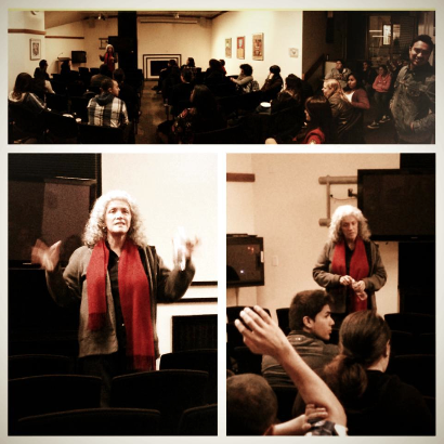 Sylvia Morales talking at UCSC